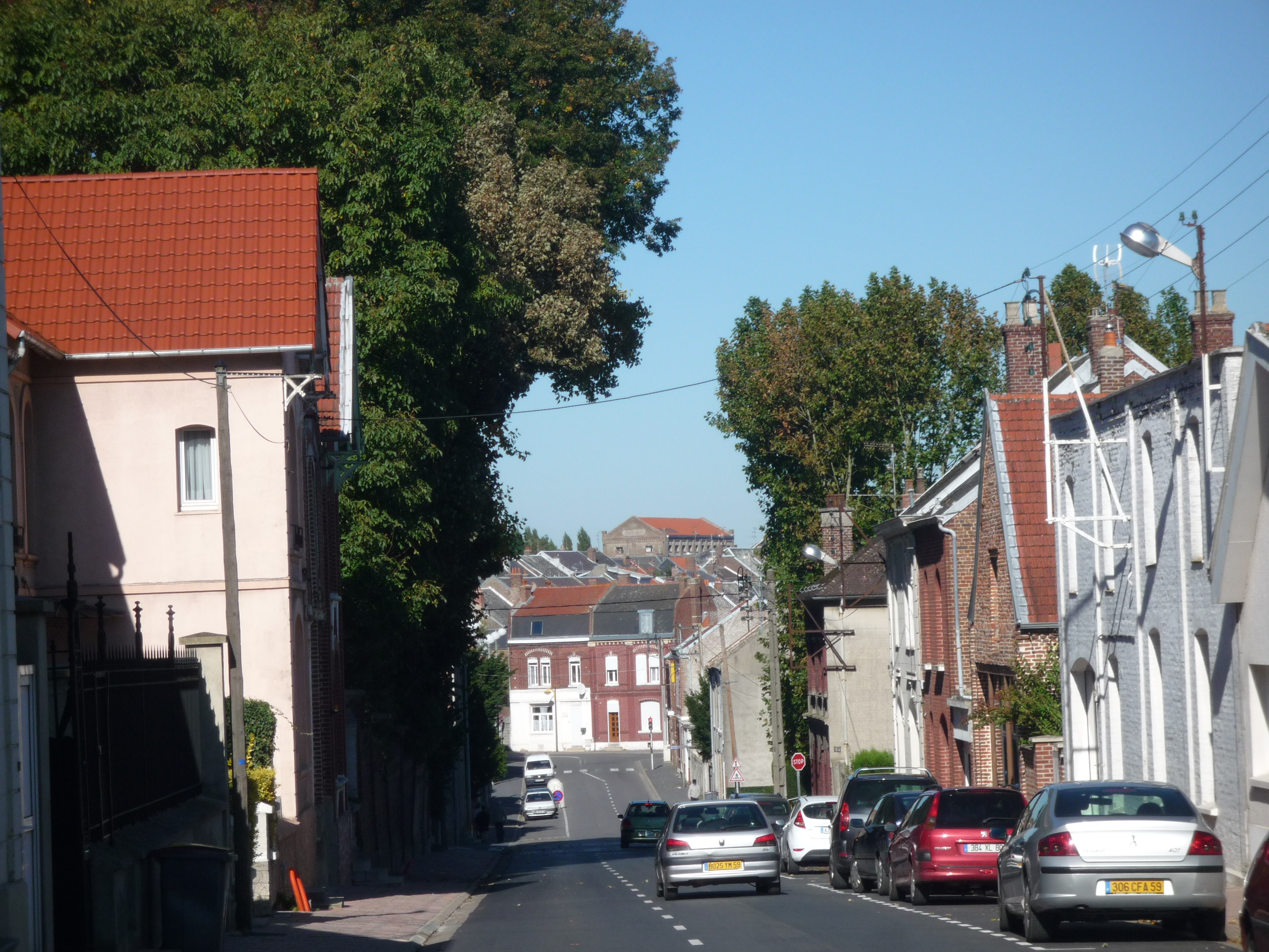 Caudry, Nord-Pas-de-Calais, France.